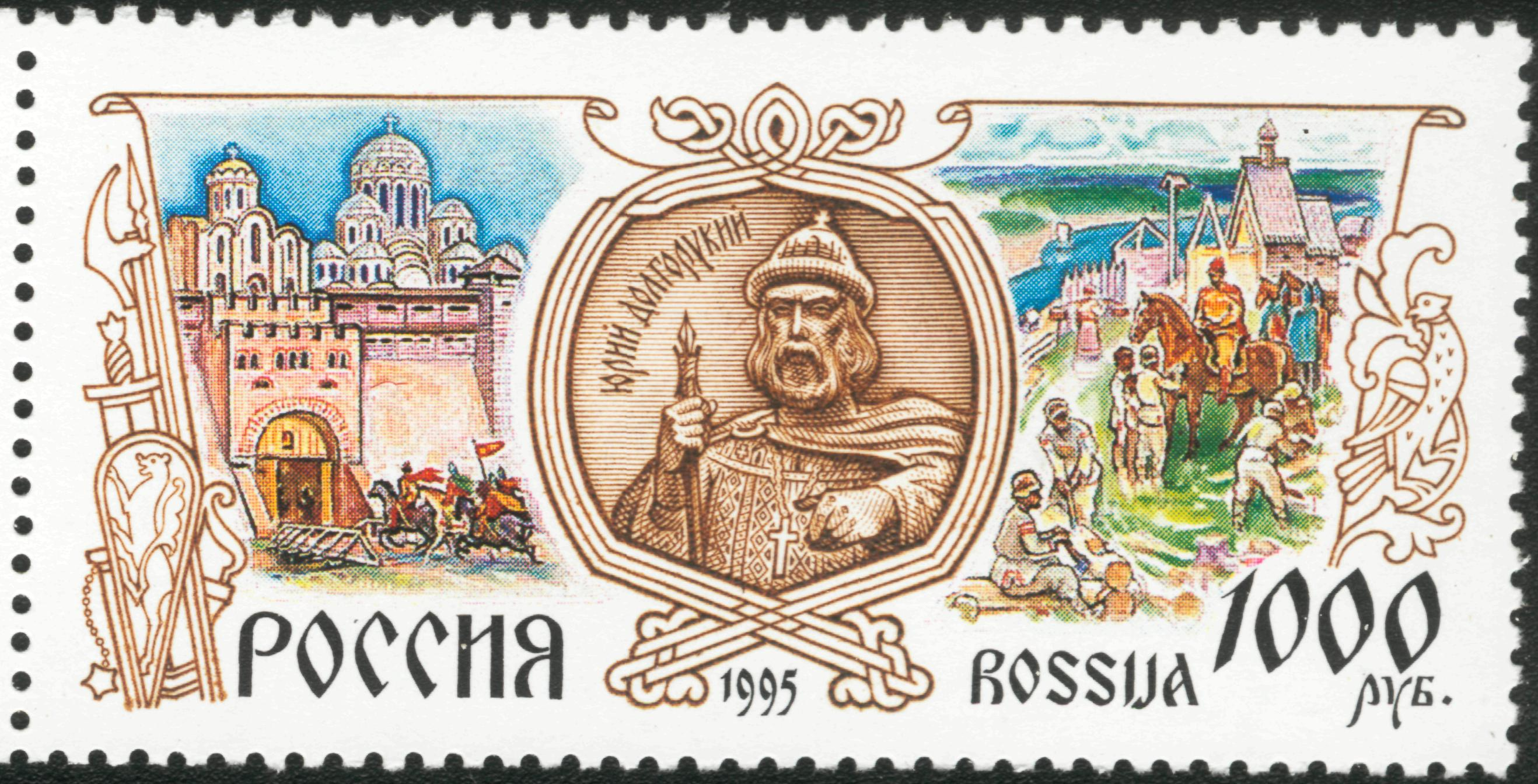 Stamp of Russia. ... 1995, 1000 rubles, CPA #?